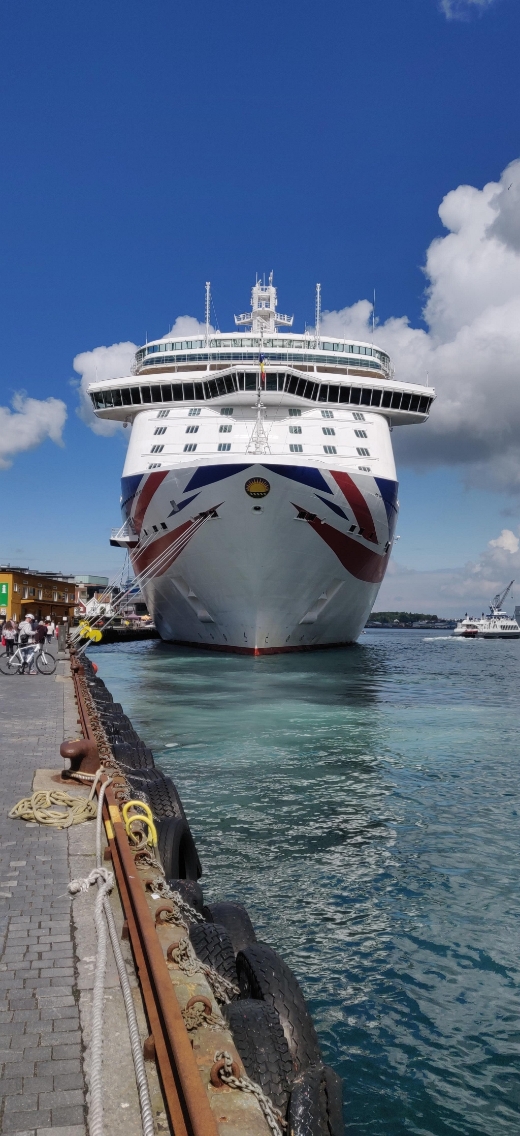 P&O MV Britannia cruise ship at berth in Stavanger Norway